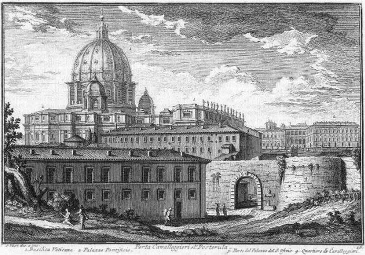 1) Basilica Vaticana (S. Pietro); 2) Palazzo Apostolico; 3) Palazzo del Sant'Offizio o della Santa Inquisizione; 4) Quartiere dei Cavalleggeri (cavalry barracks).